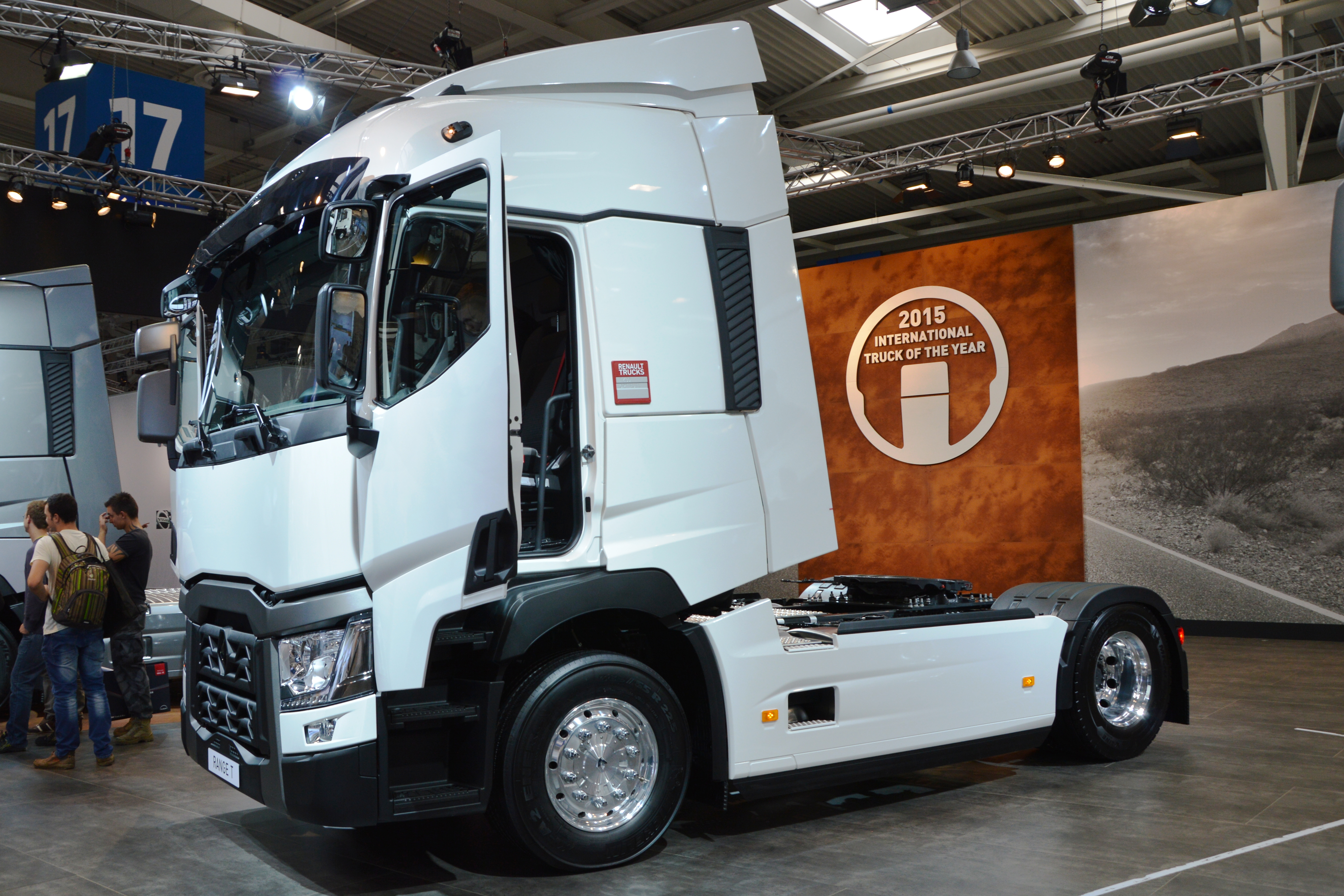 Renault T 430 T4X2 OPTIFUEL E6 tractor. Engine: 316 kW at 1800 rpm. Torque: 2040 Nm. Wheelbase: 3800 mm. GVW 18 to. Photo taken at exhibition IAA 2014 in Hanover, Germany.